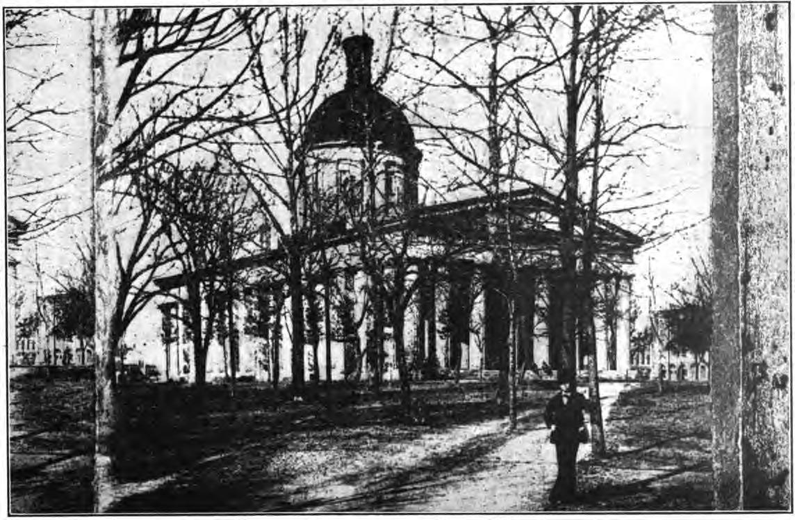 A photo of Indiana's third statehouse located in Indianapolis, a design inspired by the Parthenon. Photo taken c 1860, building was demolished in 1877